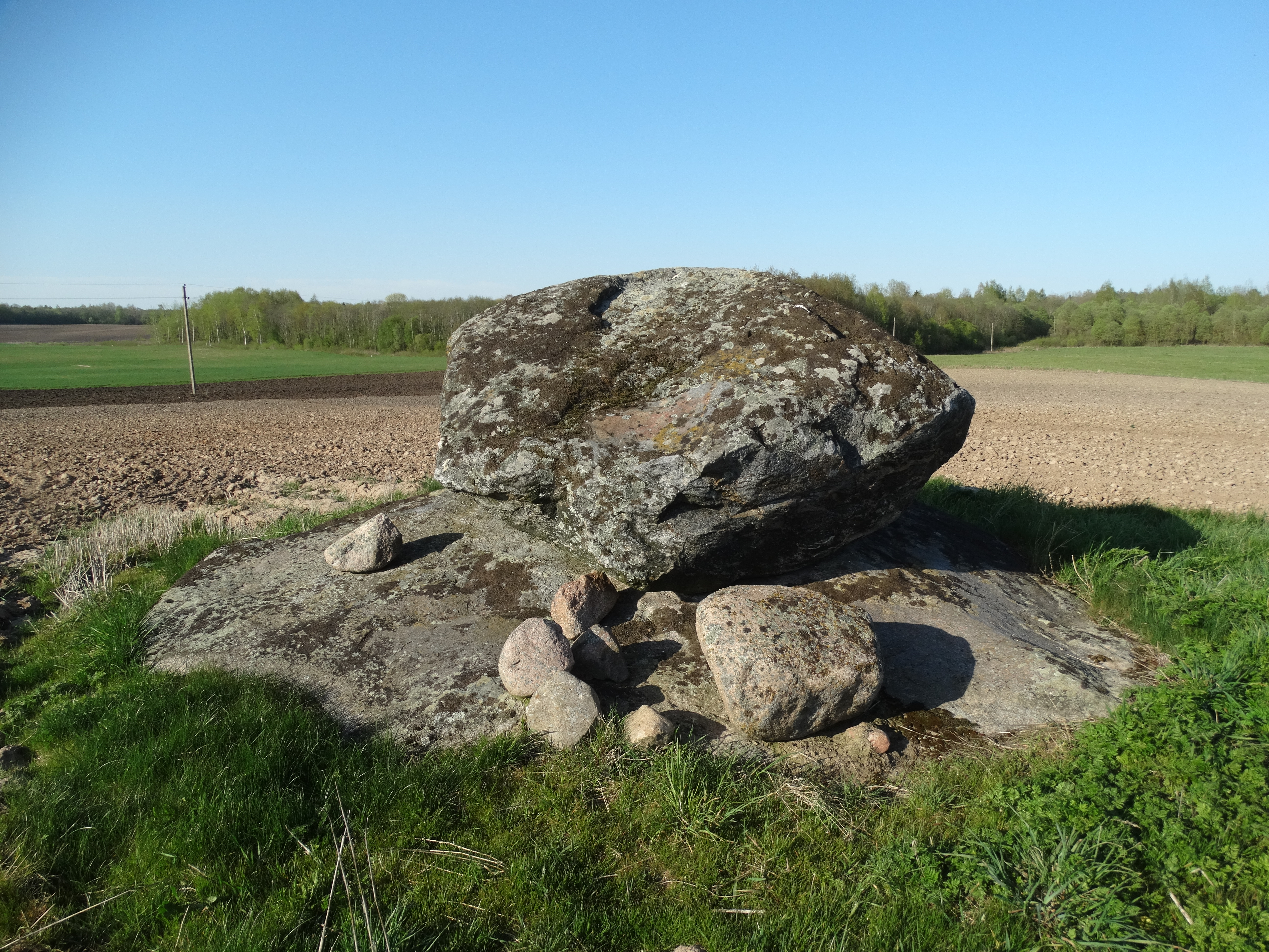 Stones in Dūdai, Širvintos District, Lithuania